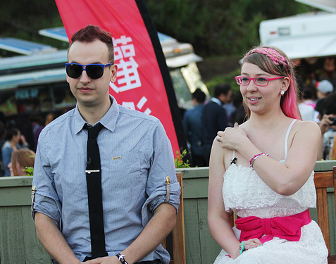 Simon and Martina from the K-Pop website Eatyourkimchi